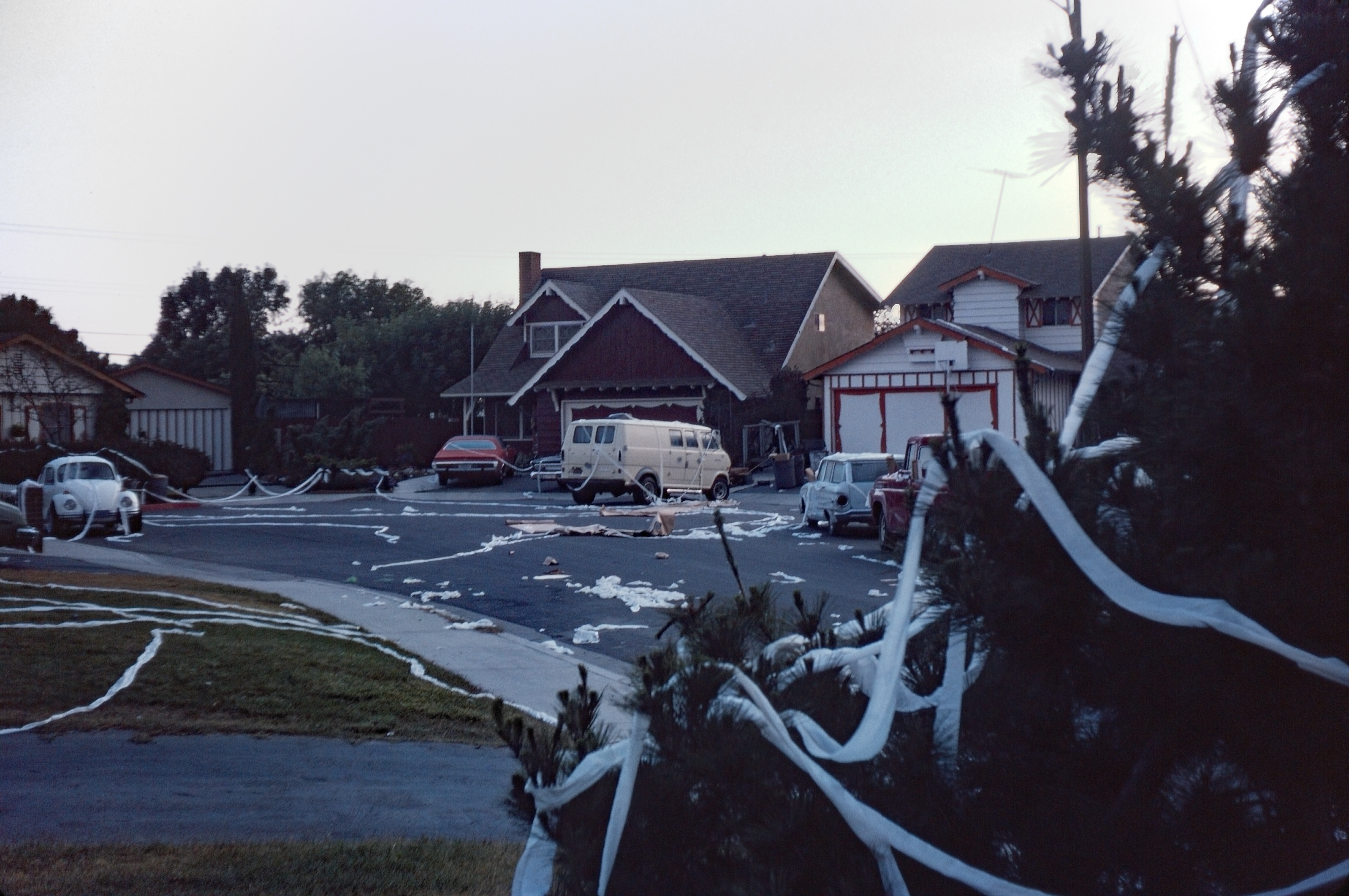 Early morning view of TP'ing on the 23500 block of Nicolle Ave., Carson, California.